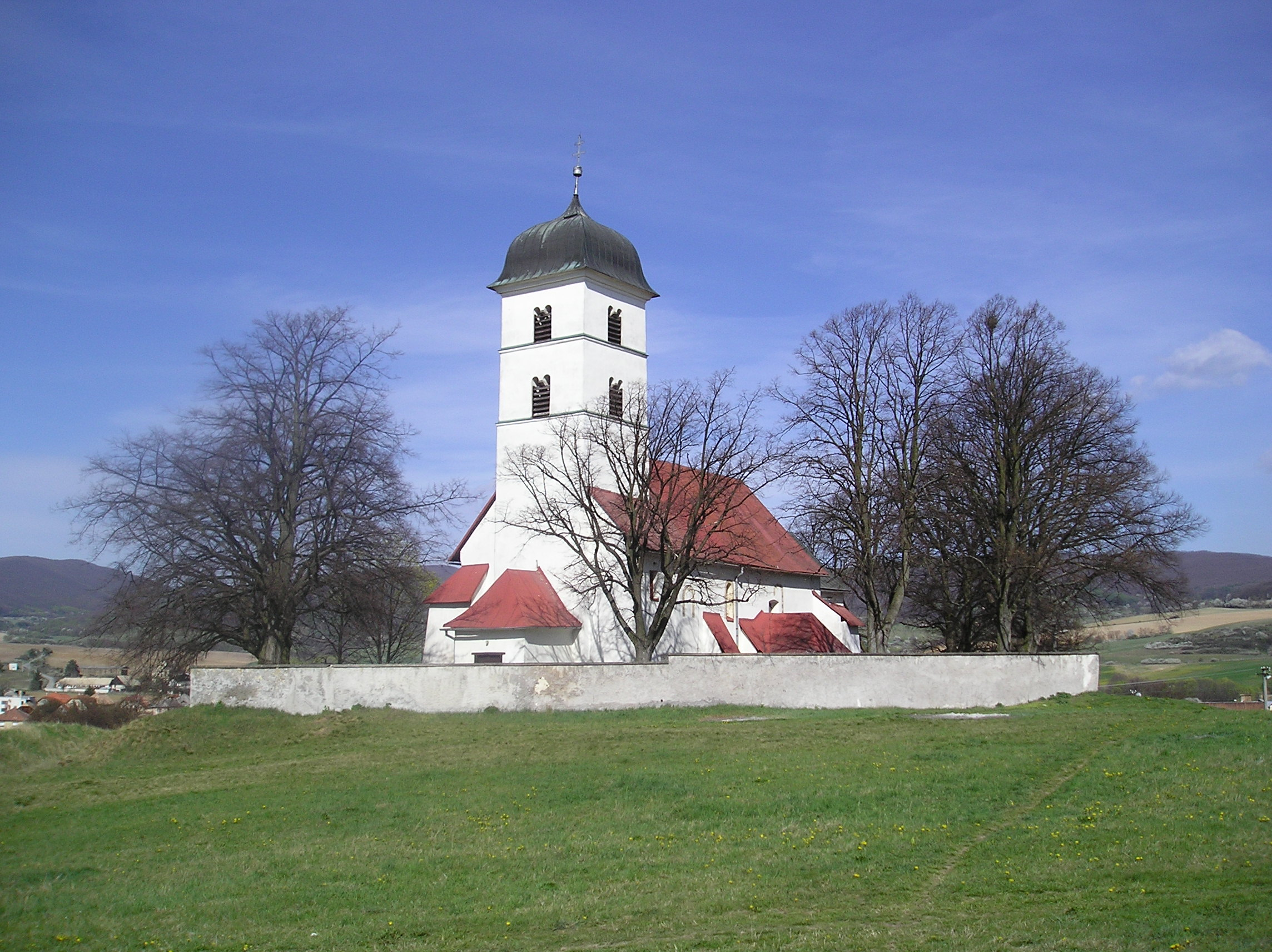 Catolic church en village Sása, Zvolen distrikt, Slovakia